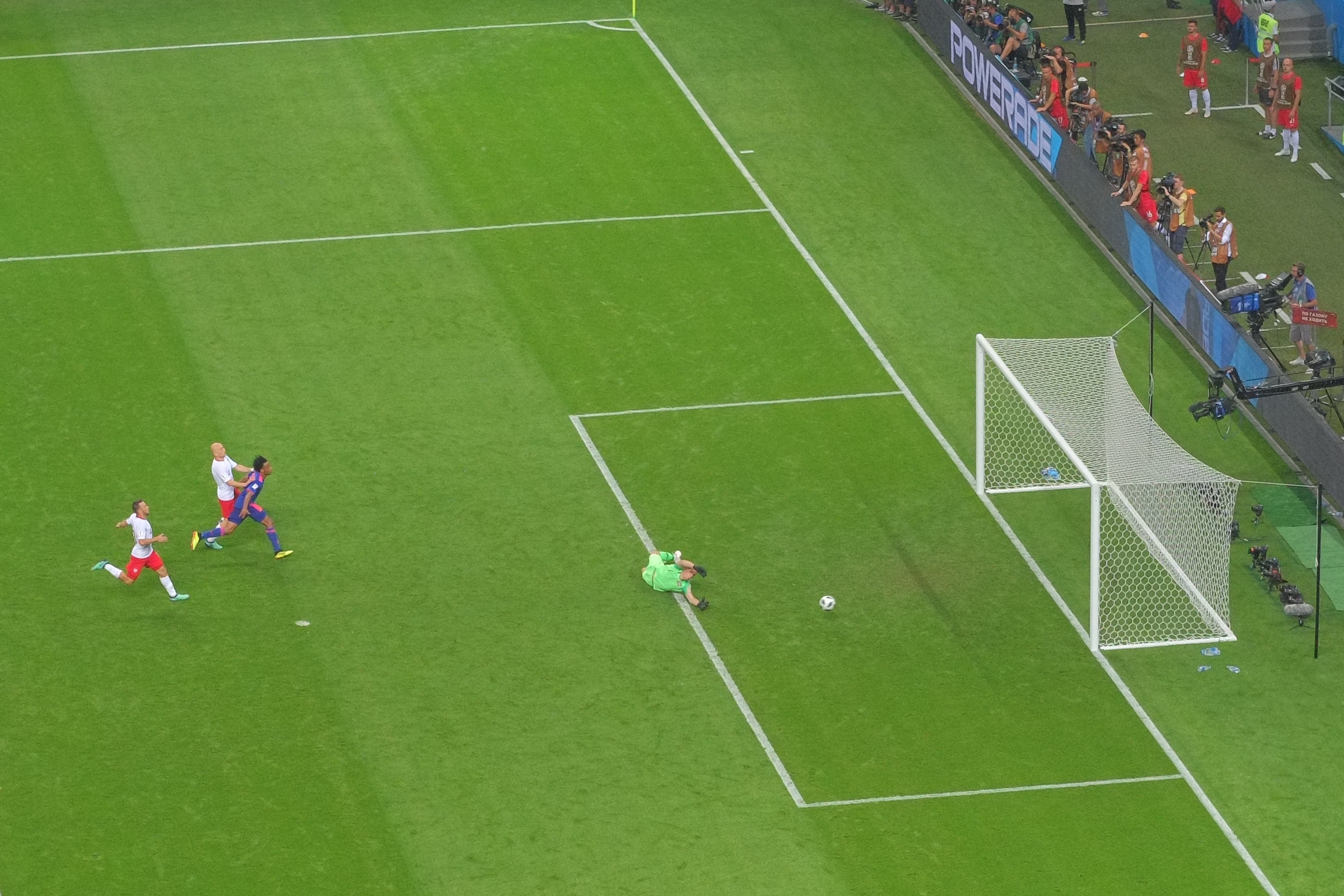 Poland v. Columbia at 2018 FIFA World Cup